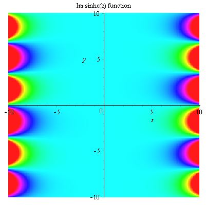 Sinhc Im plot